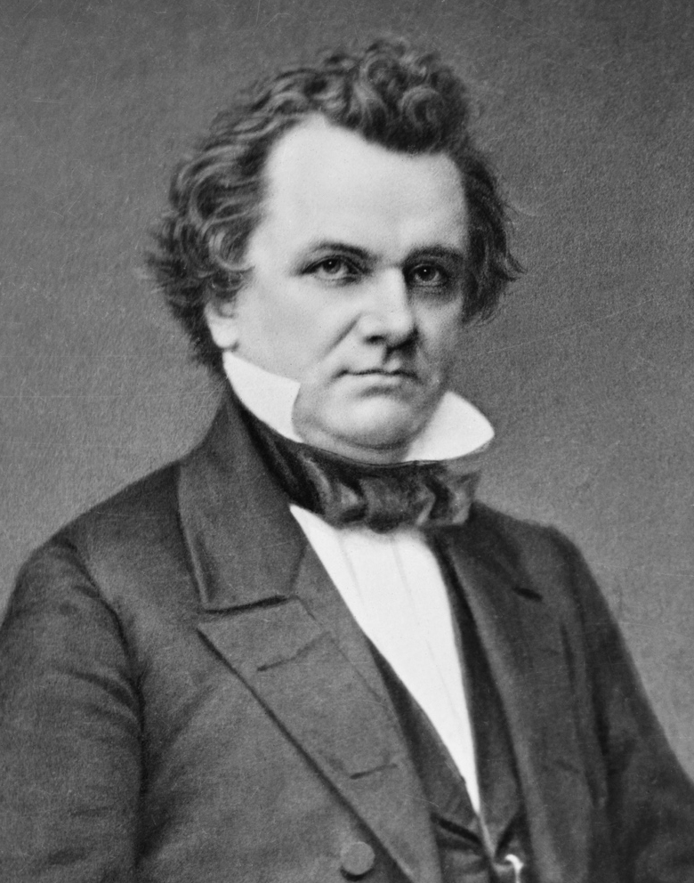 Photograph of Stephen A. Douglas taken between 1855 and 1861